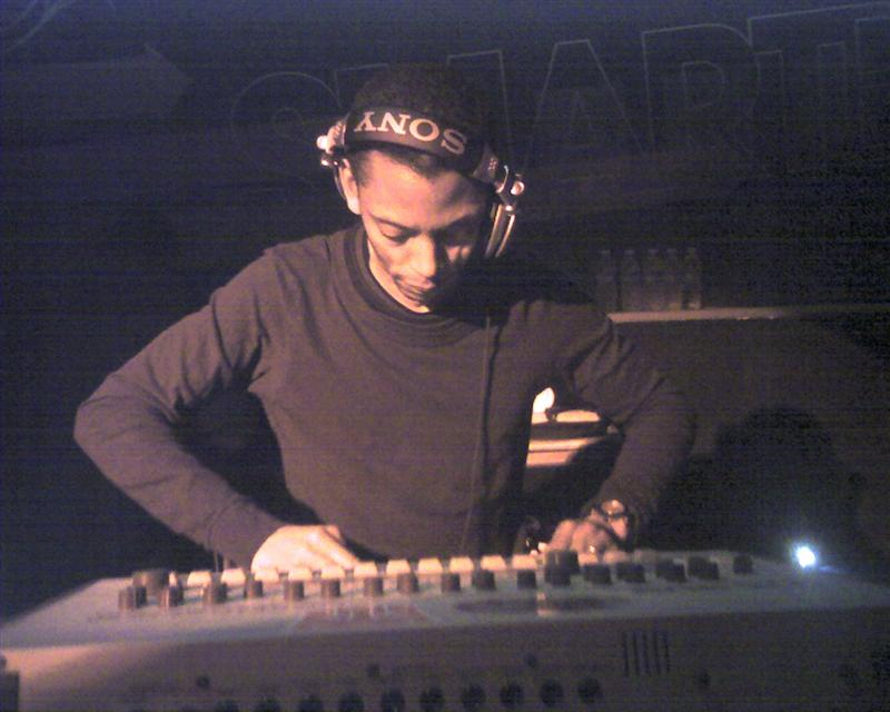 Jeff Mills at Smartbar in Chicago on Friday April 20th, 2007.